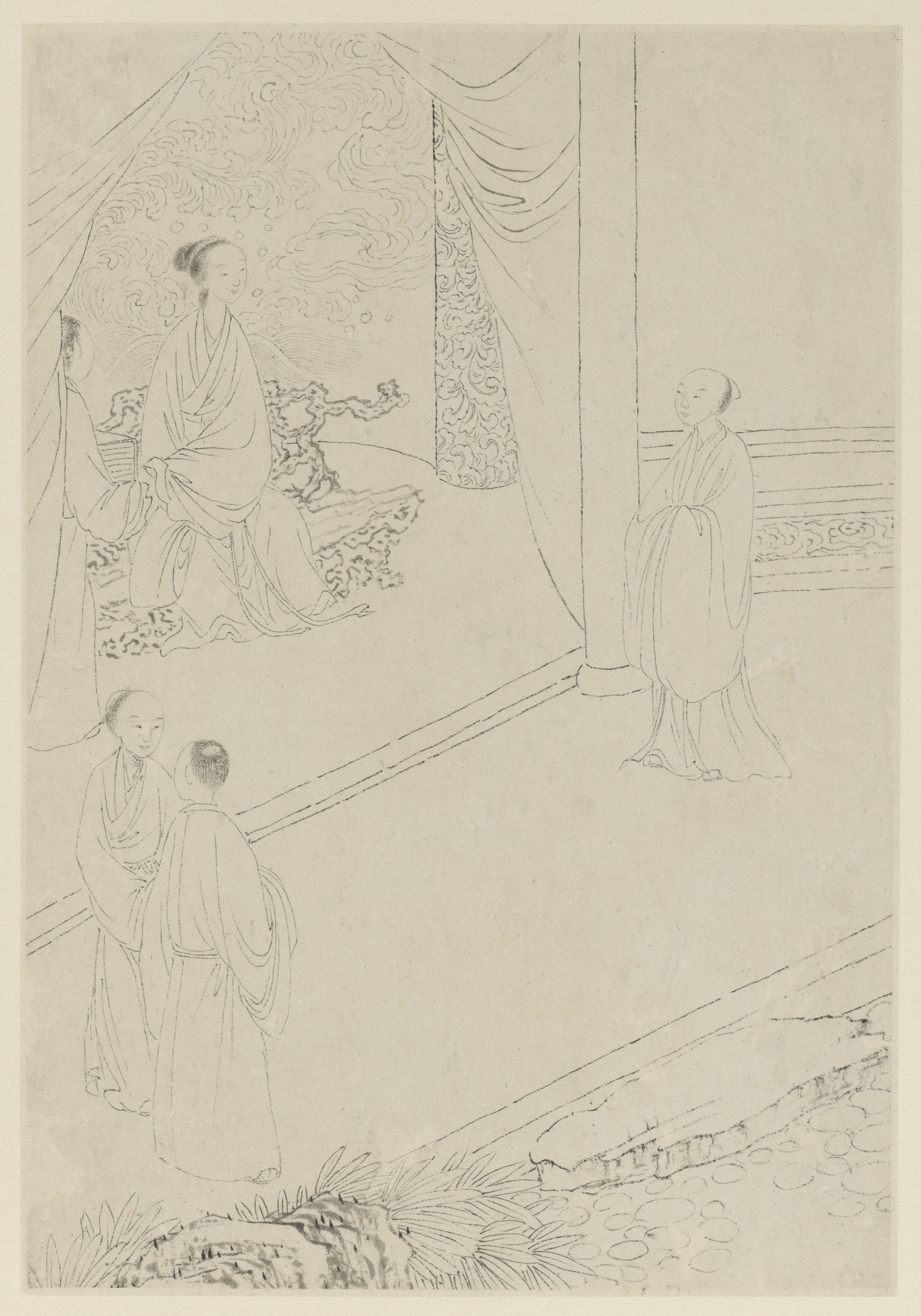 This depicts Shangguan Wan'er (上官婉兒), imperial consort rank Zhaorong (昭容).